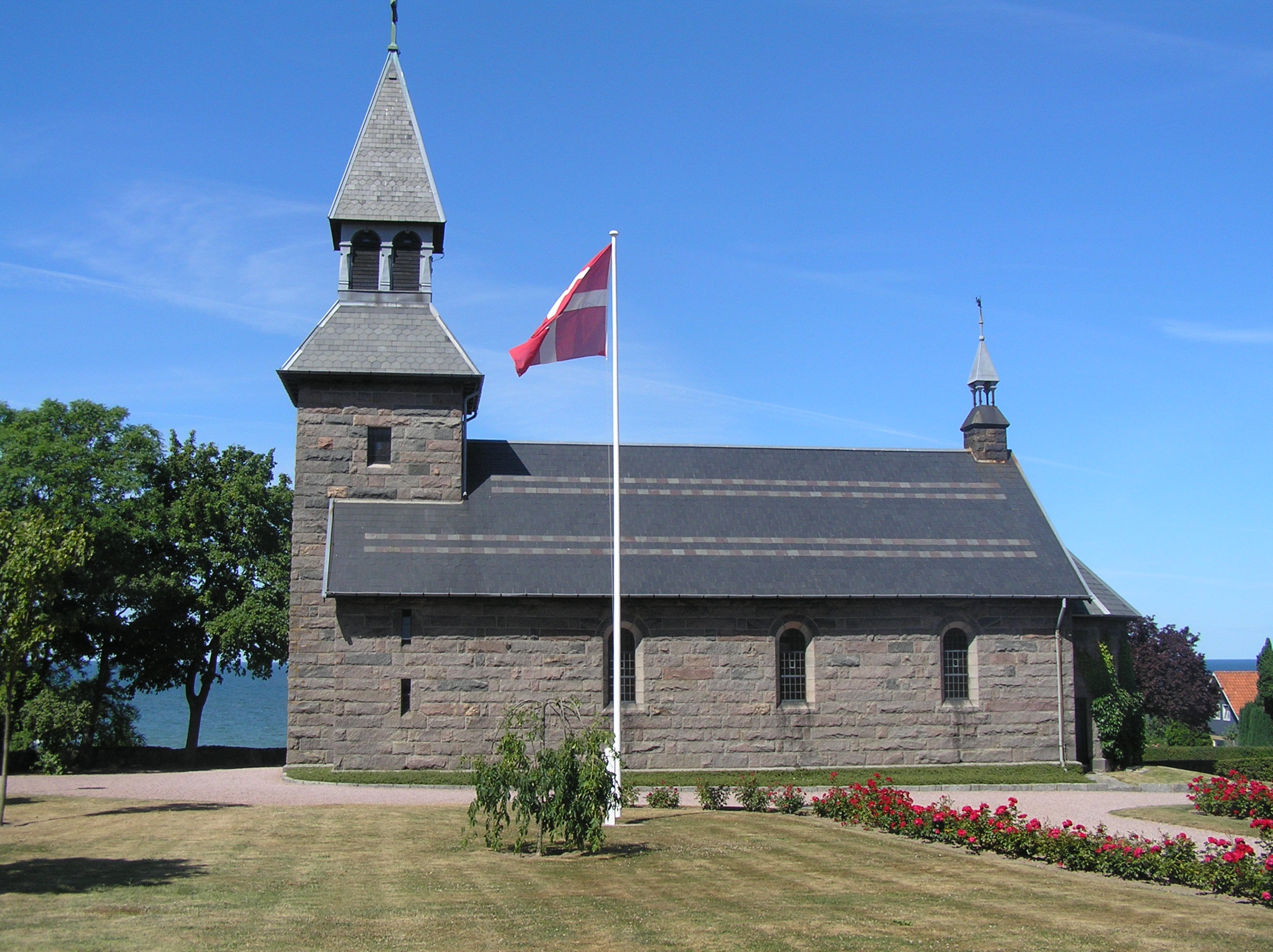 The church of Gudhjem, Bornholm, Denmark Photo taken by Arne Jensen, July 2006